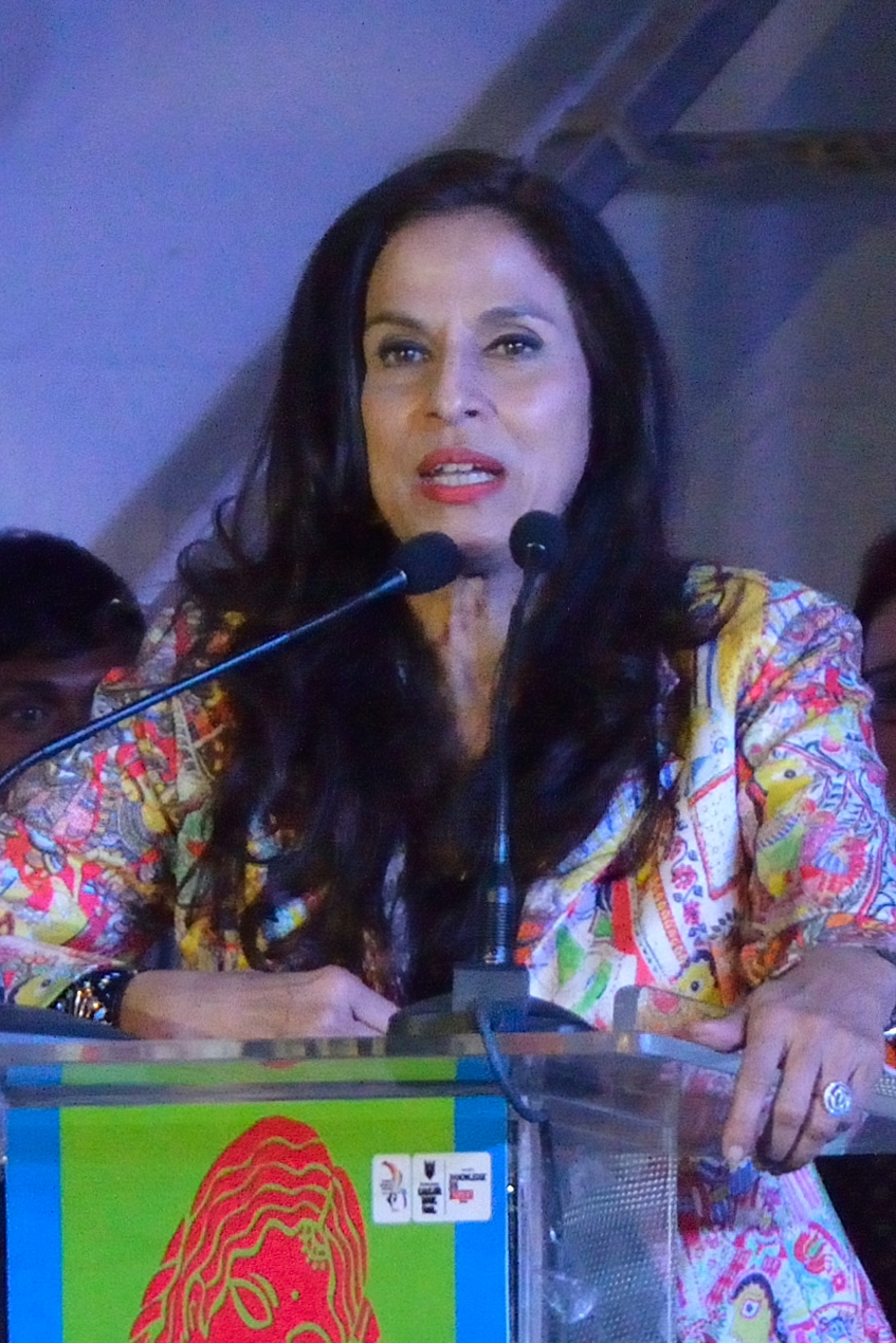 Photographed durintg the 39th International Kolkata Book Fair at Milan Mela Complex , Kolkata.